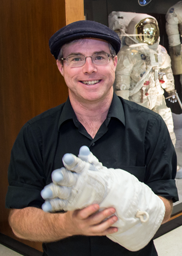 Andy Weir made a special appearance during Mars Week 2015 at Johnson Space Center.